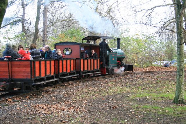 Abbey Pumping Station - narrow gauge railway.